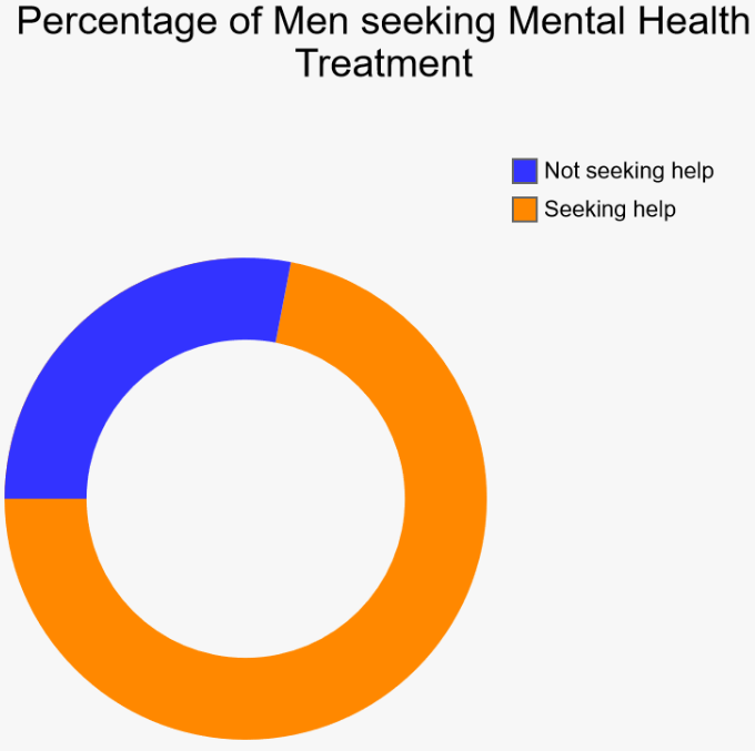 Percentage of Men seeking Treatment for PPD